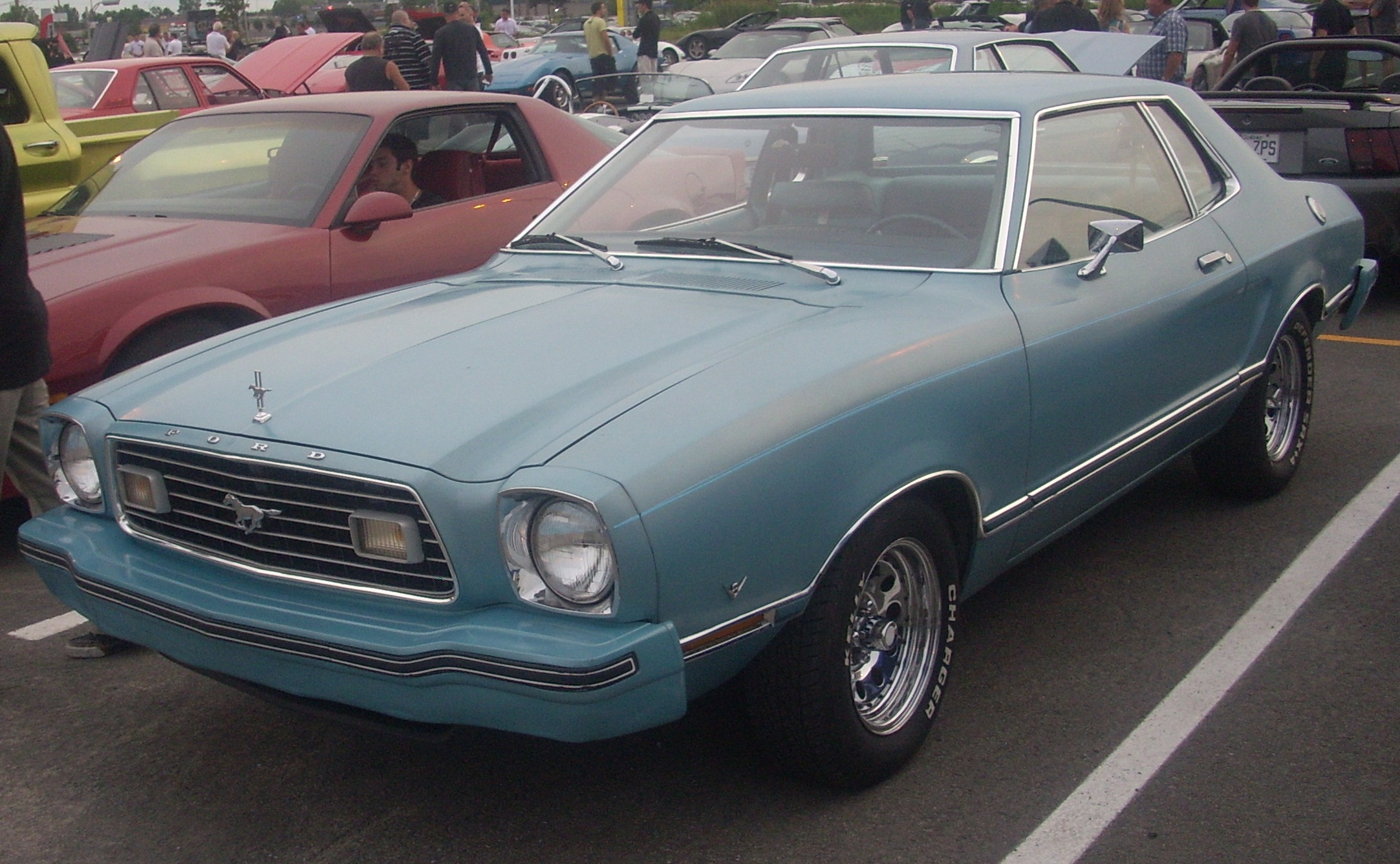 Ford Mustang photographed in Laval, Quebec, Canada at Centropolis Laval.